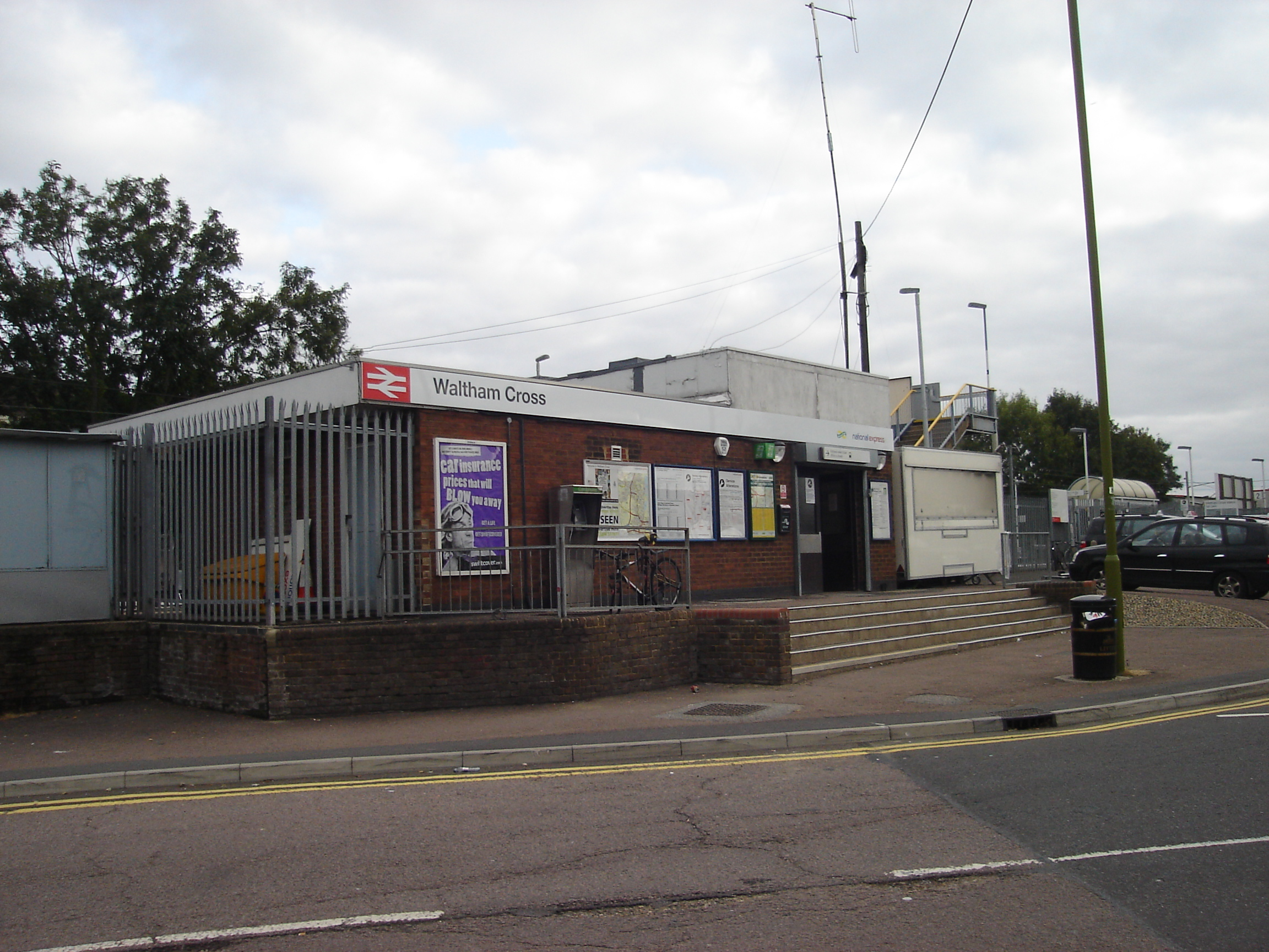 Picture of Waltham Cross railway station